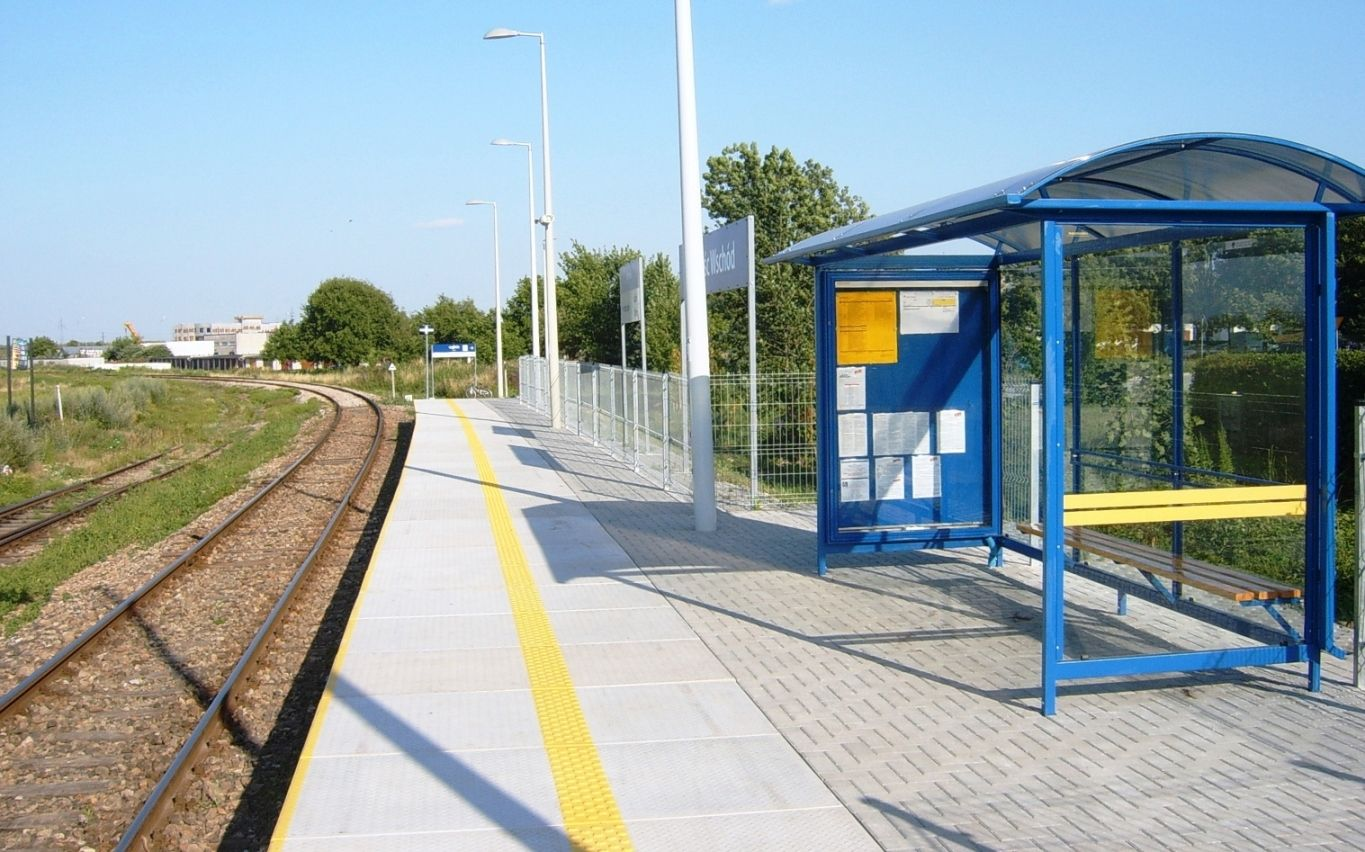 Train station (halt) Zamość Wschód in Zamość